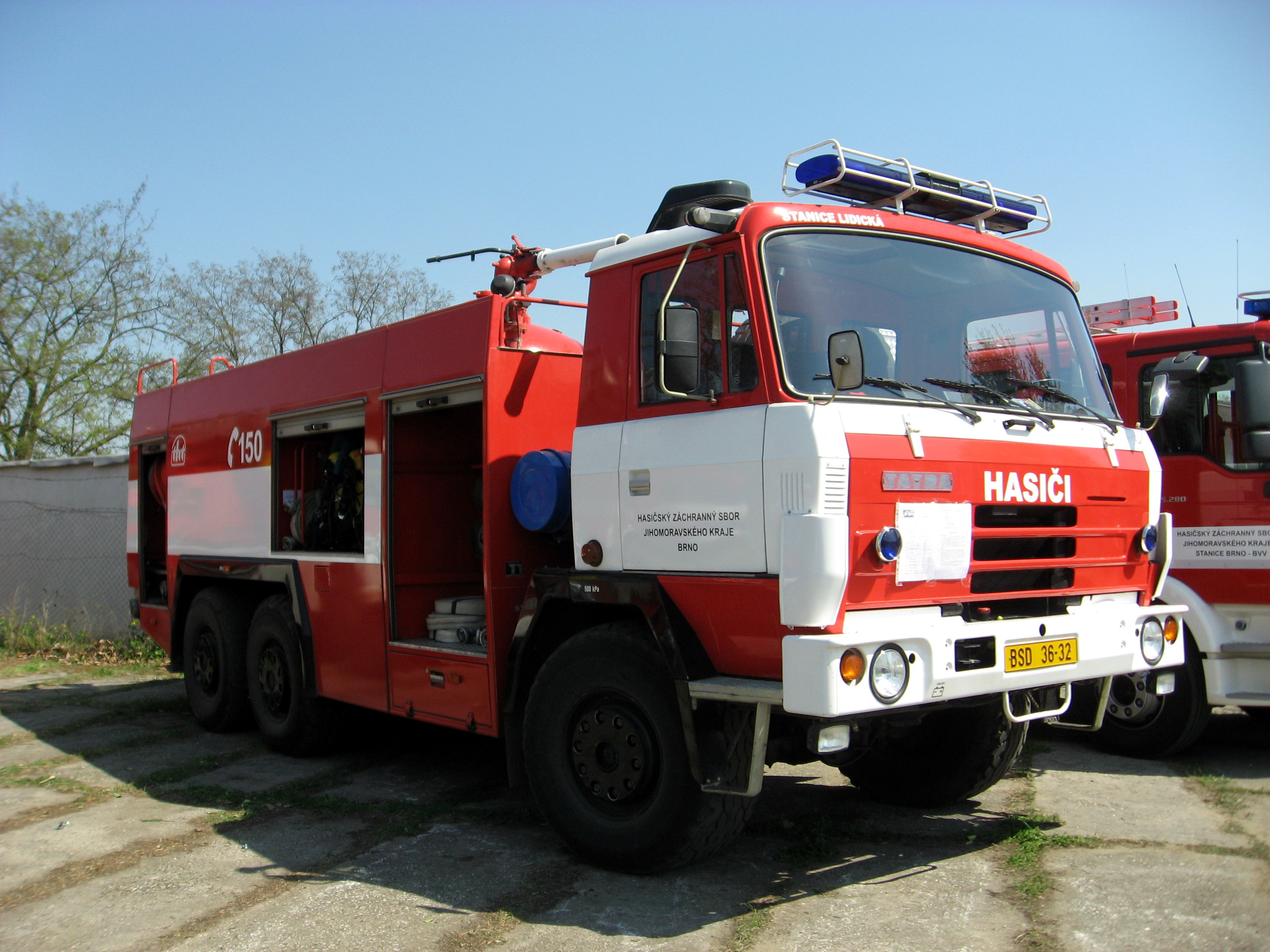 Open day at Řečkovice, Czech republic, exhibition of fire fighting vehicles and equipment. The vehicle in foreground is Tatra T815